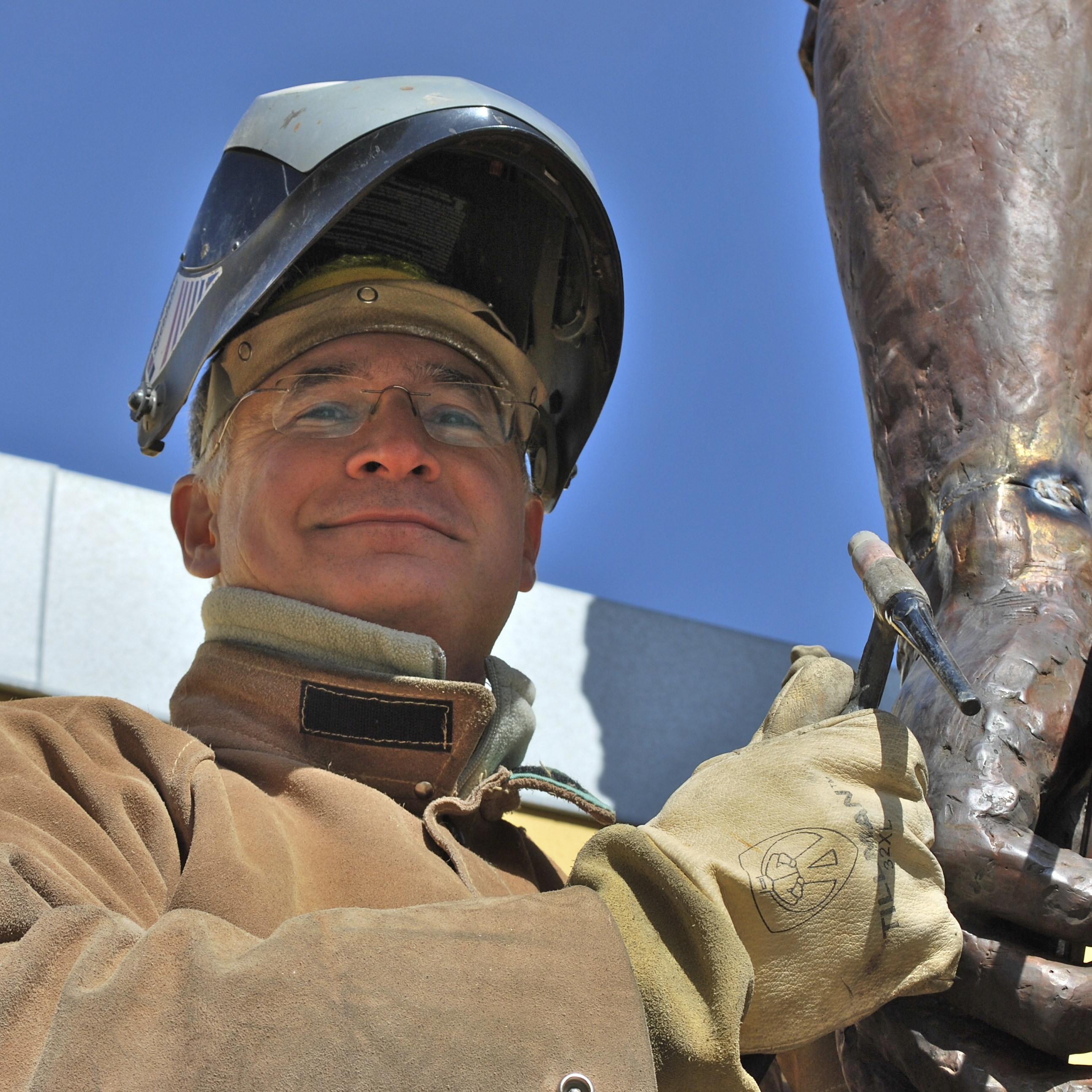 Nicholas Legeros, sculptor, welding.